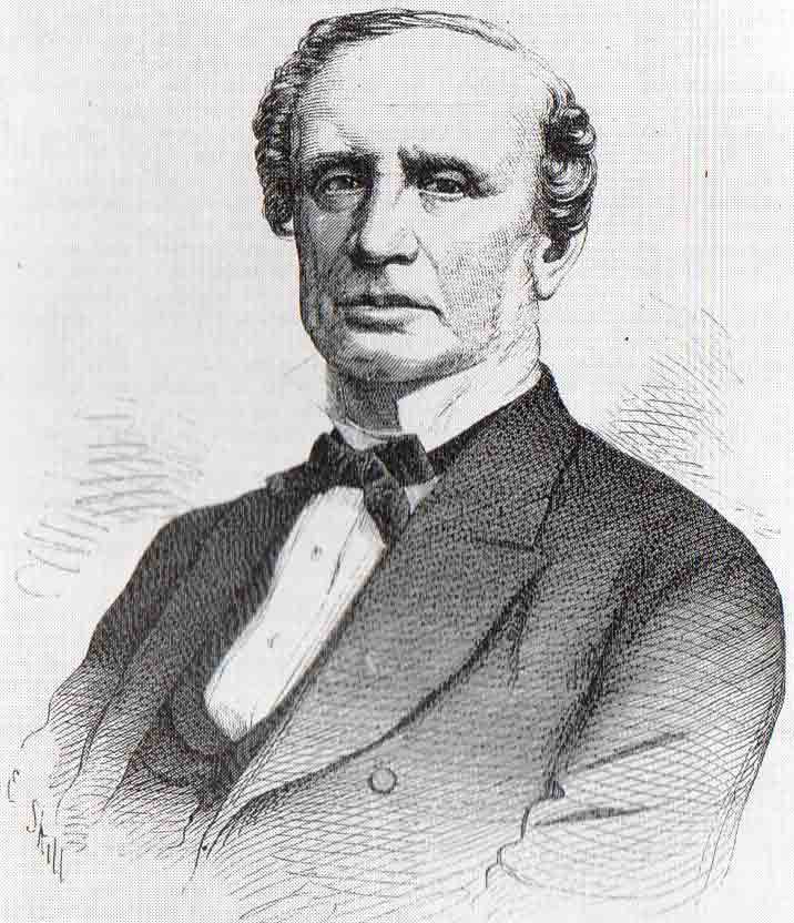 F F Carlson (1811-1887)